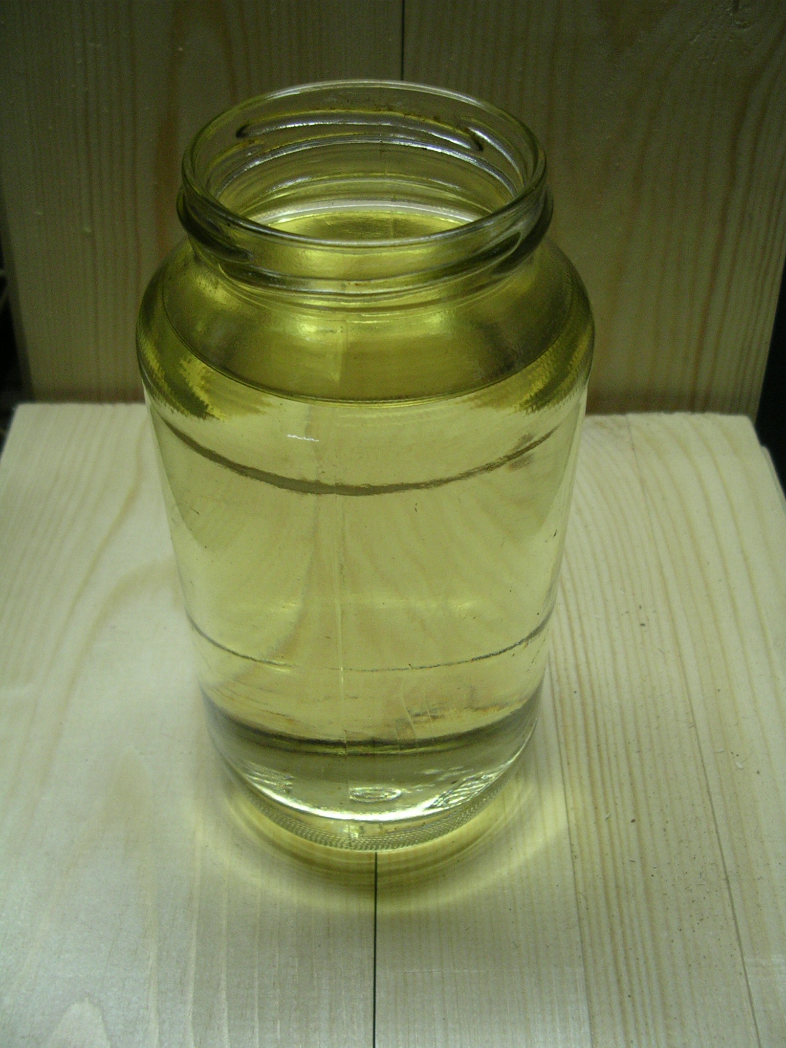 80 RON gasoline in 720 ml mason jar